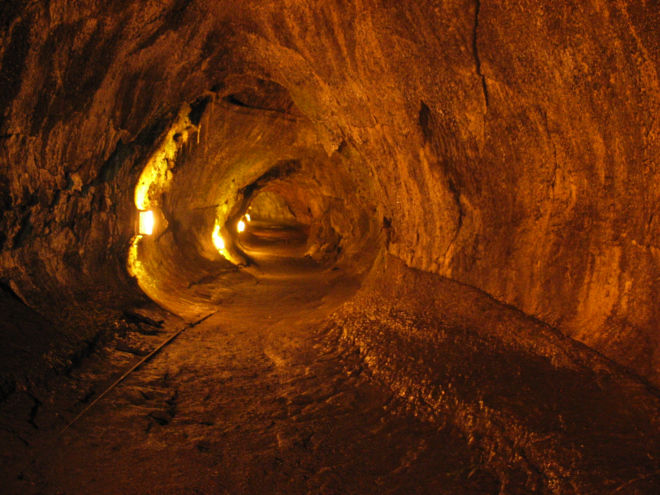 Thurston Lava Tube, Hawai'i Volcanoes National Park, Big Island of Hawai'i, USA